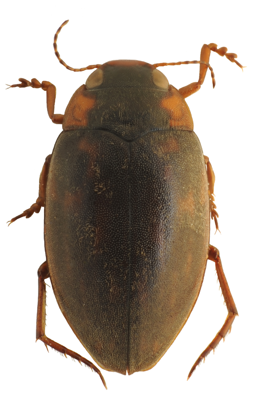 Habitus dorsal of Coleoptera: Dytiscidae: Hydroporinae: Antiporus femoralis